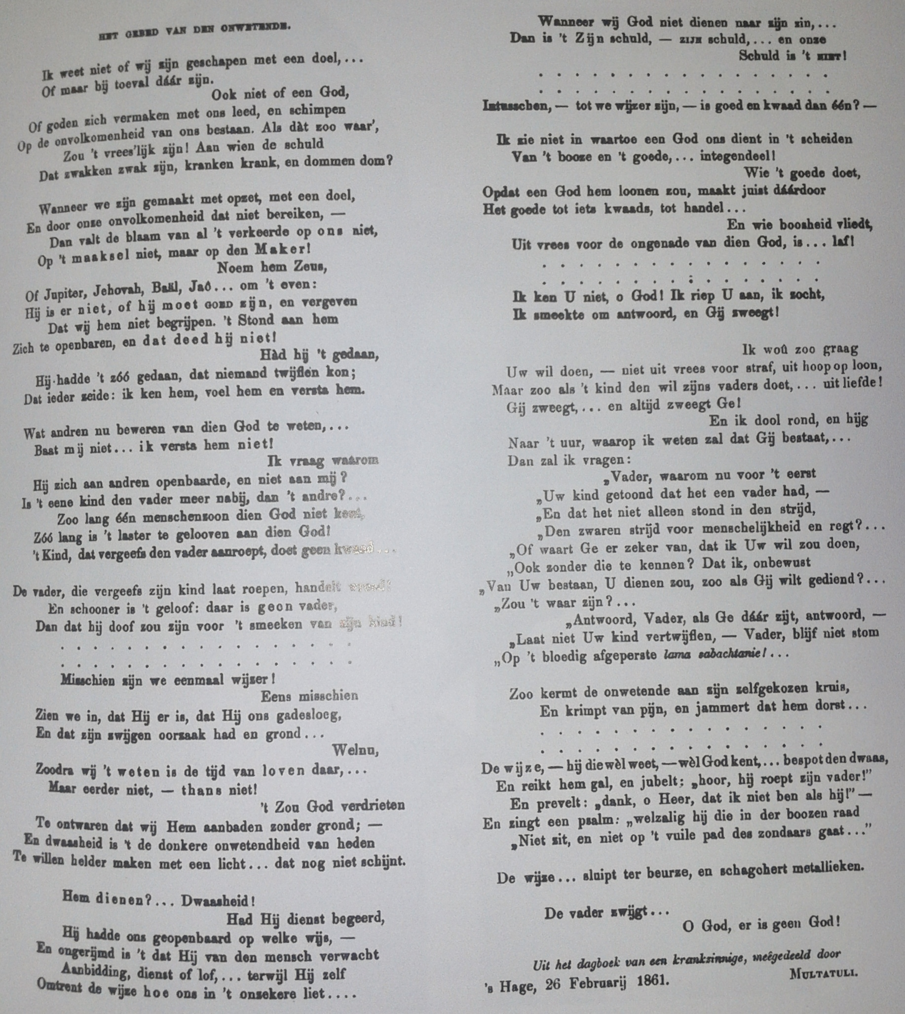 Literary writer Multatuli (pseudonym of Eduard Douwes Dekker) dramatically expresses his sorrow, doubt in the existence of God and his subsequent deconversion after his struggle with the problem of evil and inconsistent revelations. This poem, published in 1861 in magazine De Dageraad, made him famous and adored amongst Dutch freethinkers.